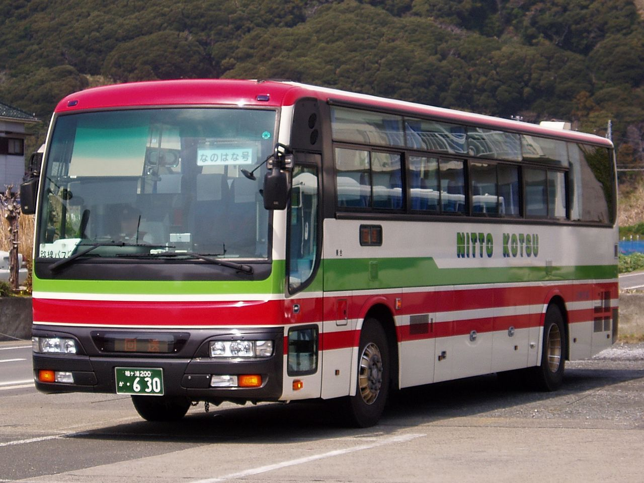 Nitto Kotsu Hihway Bus